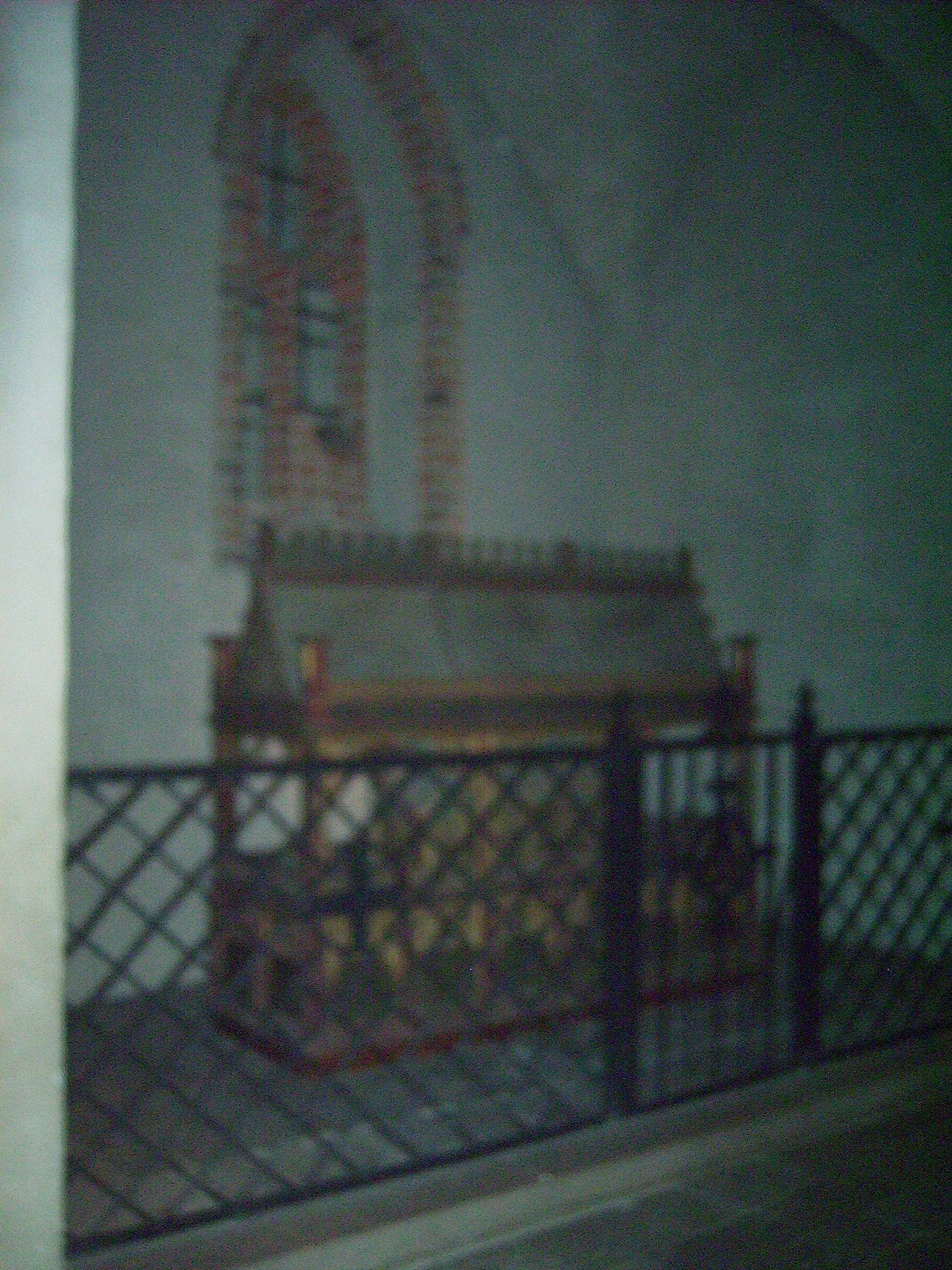 Turku Cathedral, Finland.